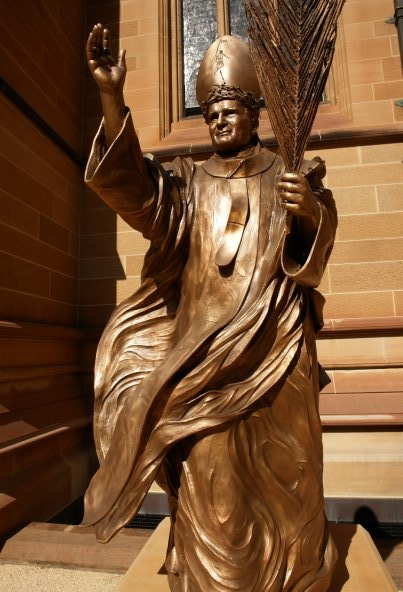 The Pope